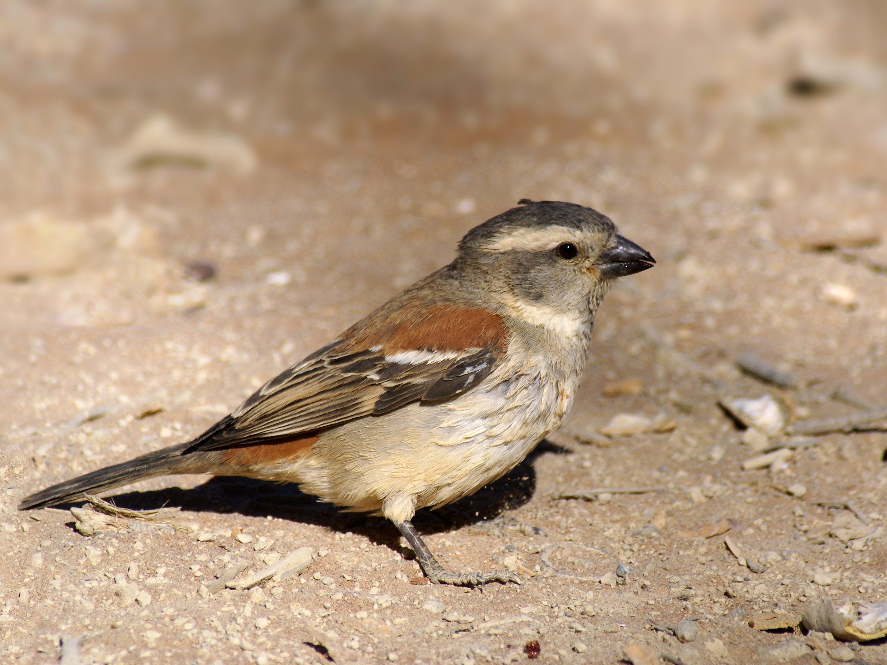 A female Cape Sparrow or Mossie at Sossusvlei, Namib desert, Namibia